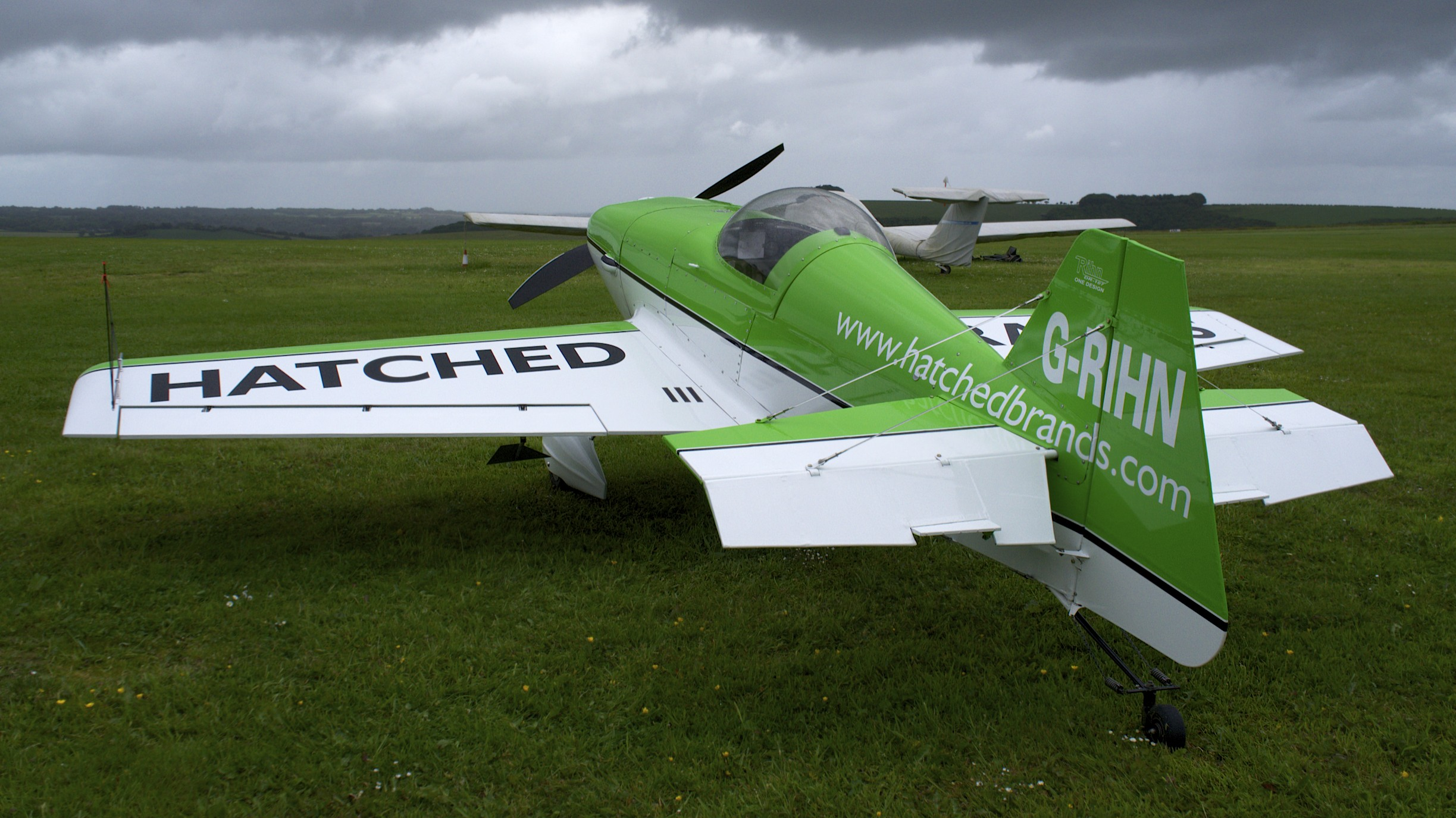 Every year the British Aerobatic Association holds the Don Henry Squadron competition at Compton Abbas - it looks like rain and low cloud may scupper the competition this year?